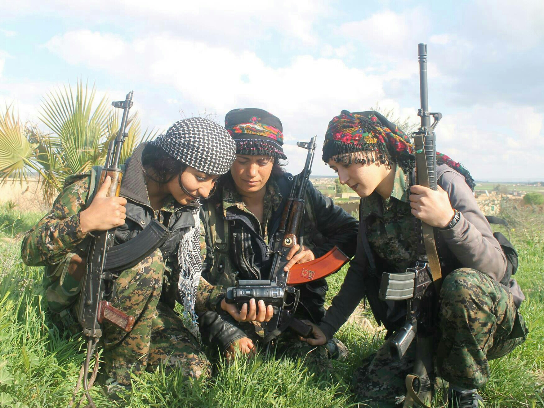 Three YPJ fighters inspect a camera